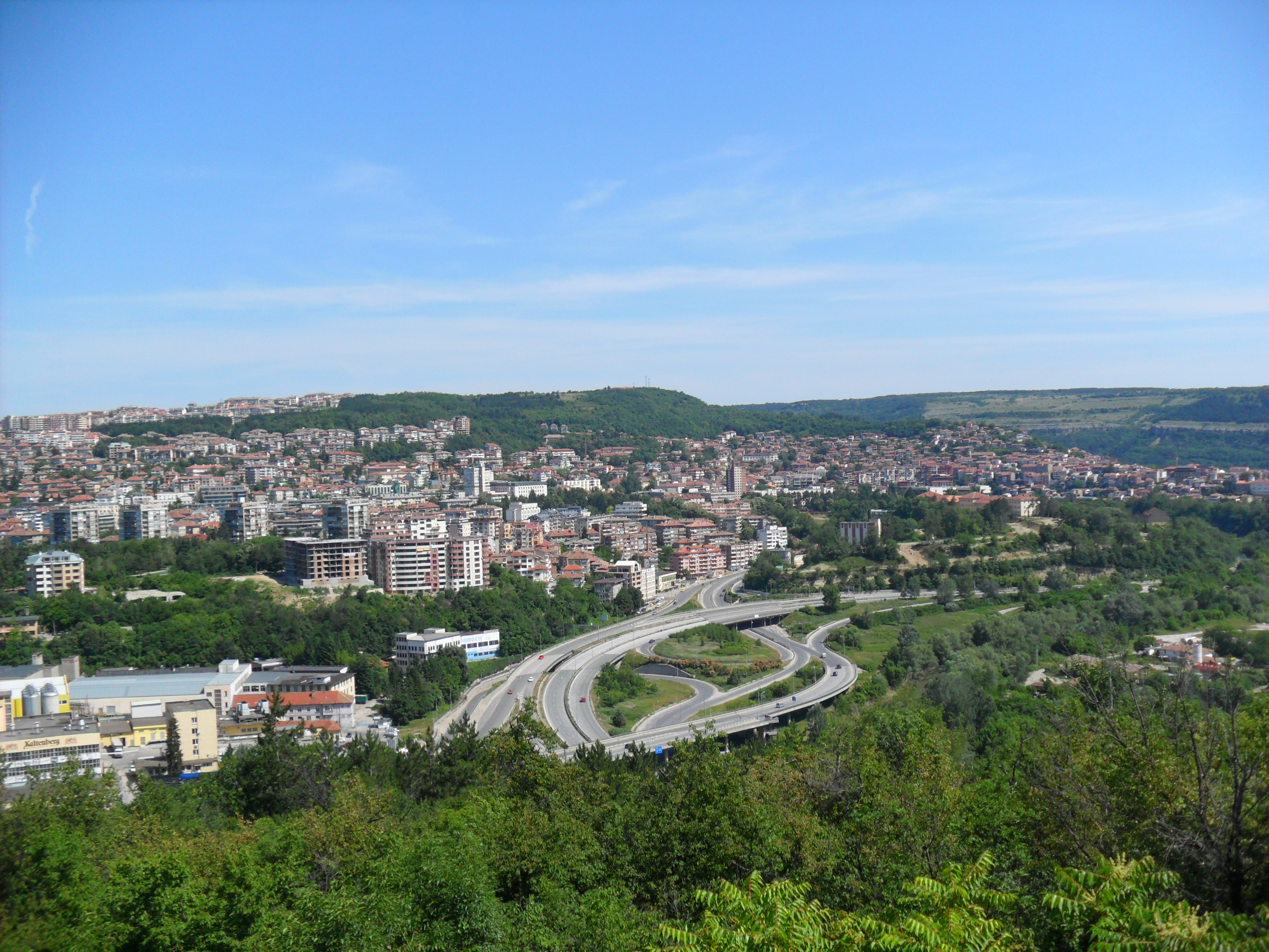 Picture taken in 2014